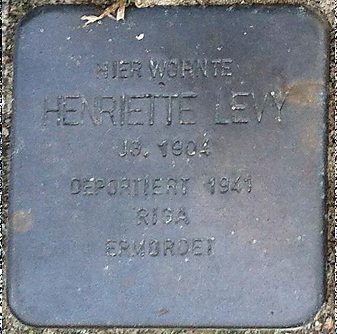 Stolperstein - Stumbling Stone in Nettetal, NRW, Germany Henriette Levy